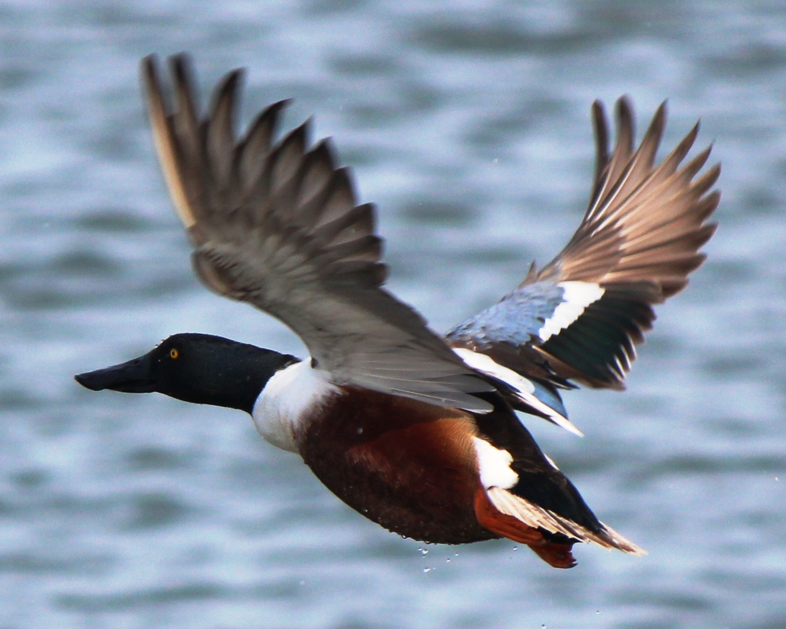 Anas clypeata (Northern Shoveler) male in flight, in Japan